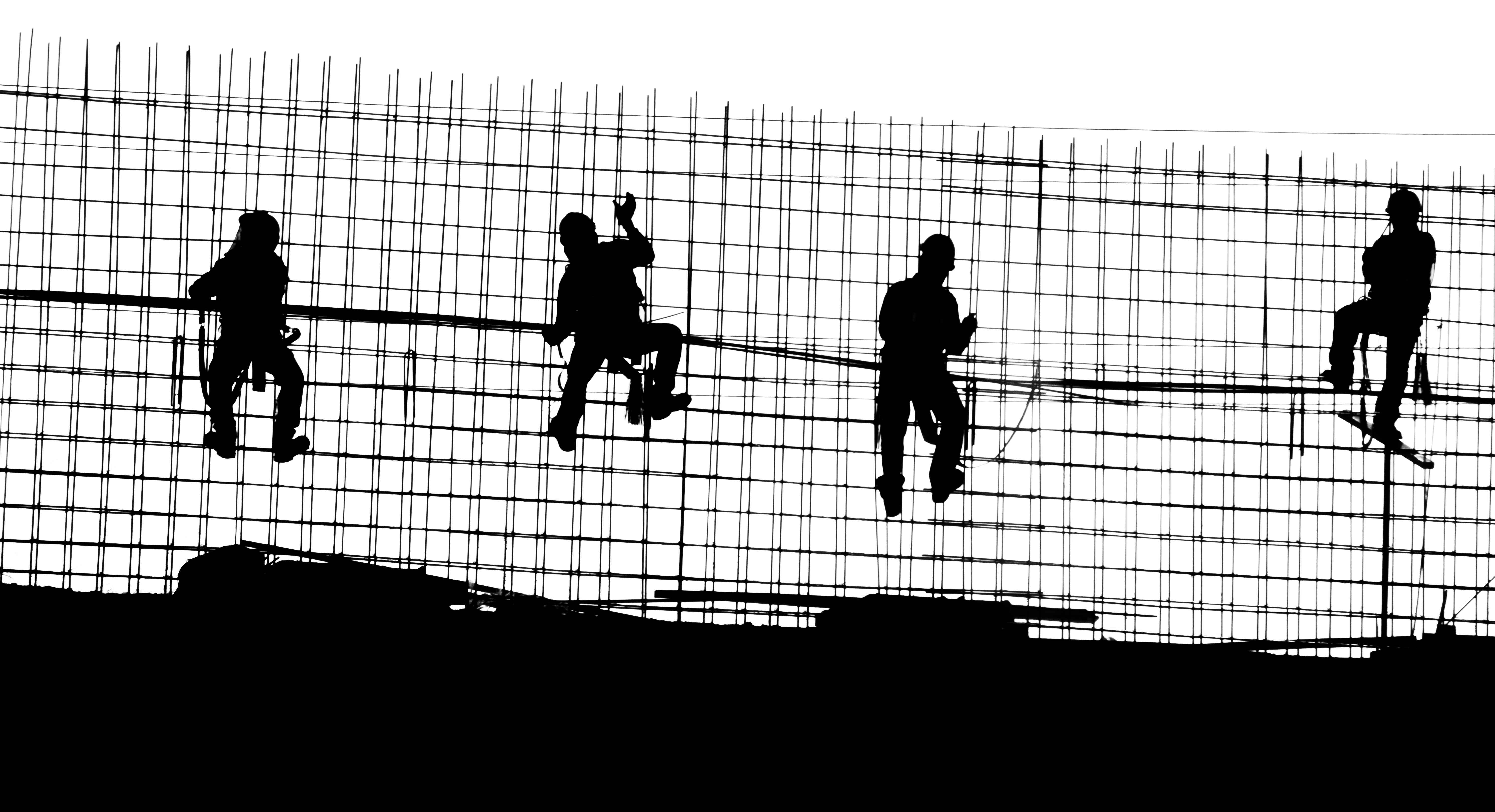 Construction workers in Mexico preparing concrete structure.